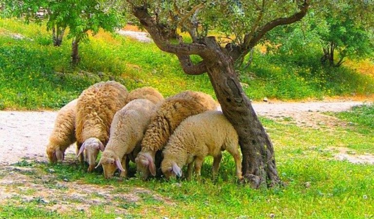 Wildlife and Plants of Israel